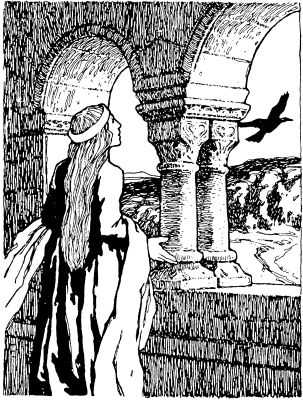 Illustration by Otto Ubbelohde to the fairy tale The Raven